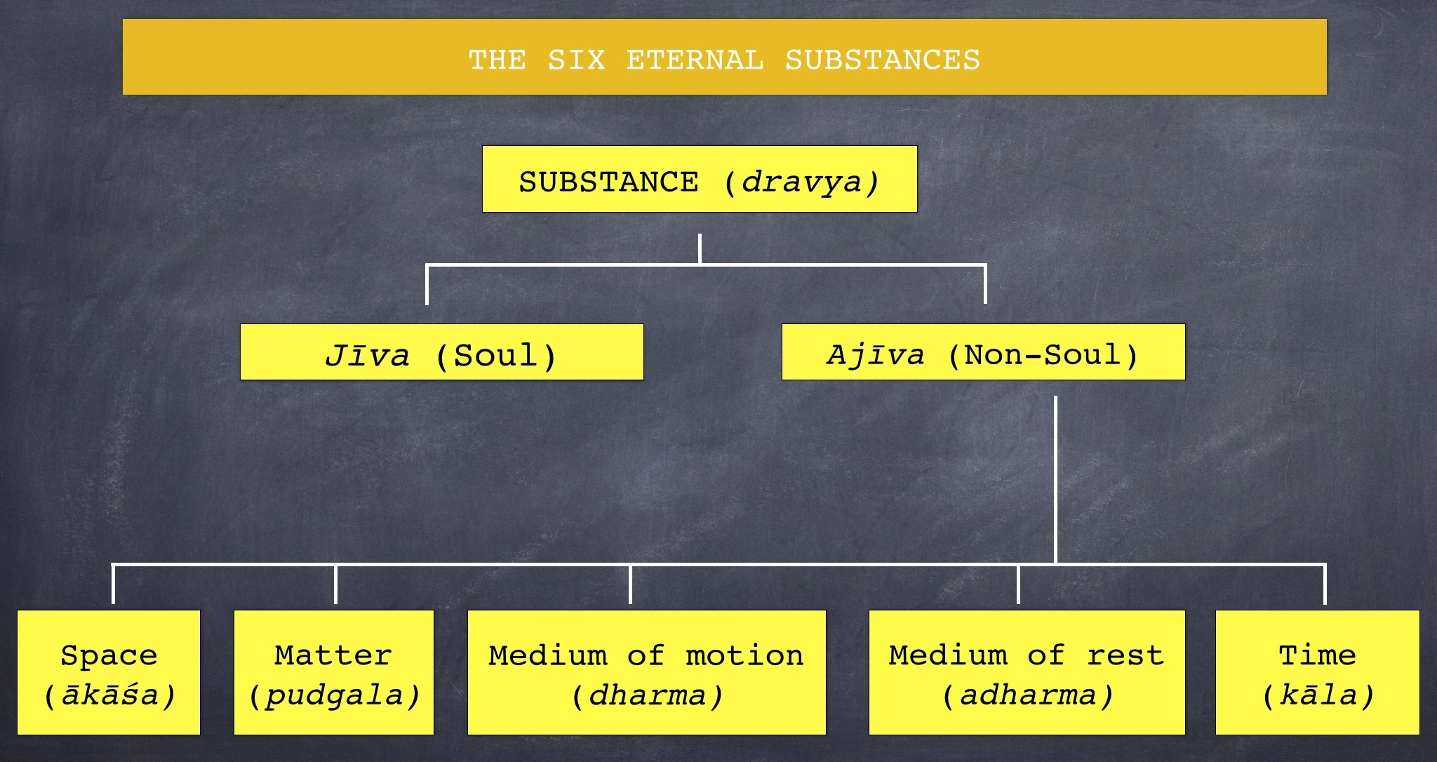 Chart classifying the the six eternal substances as per Jainism